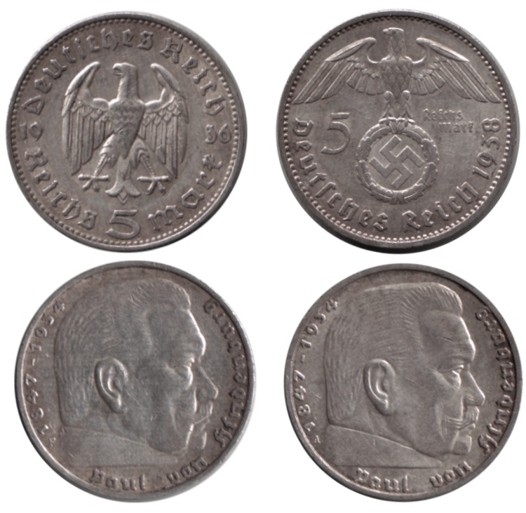 Obtained from article Reichsmark in german wikipedia, by Roger Zenner.